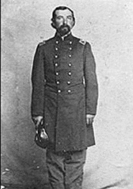 Taken from - due to its age it's in the public domain